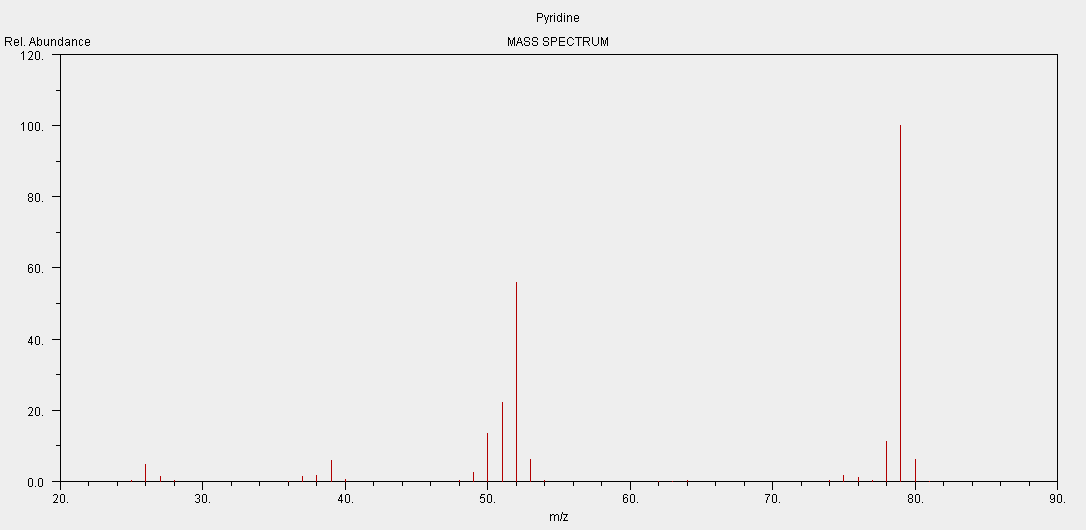 Piridine's mass spectrum